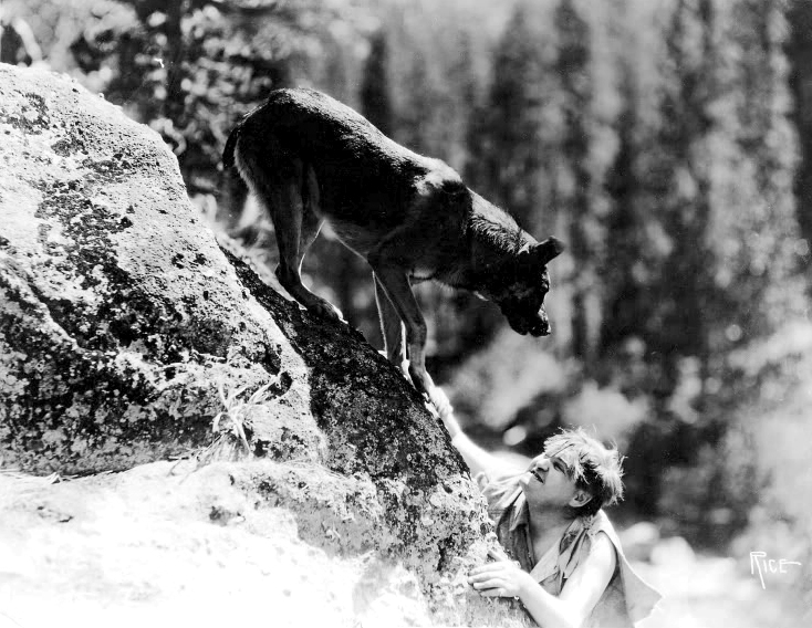 Promotional still for the 1921 film The Silent Call, featuring Strongheart and John Bowers